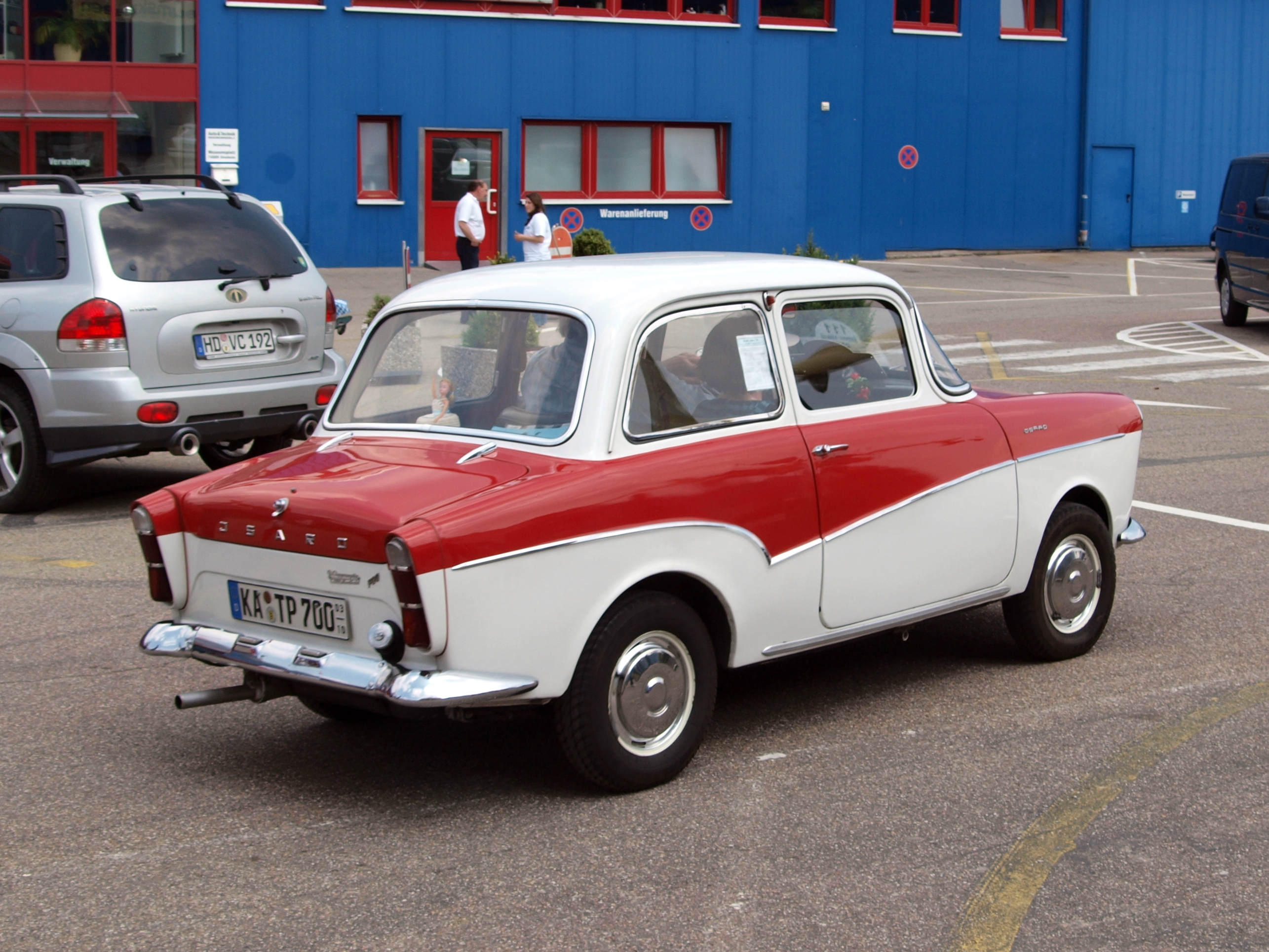 Glas "Isard" T700 Royal - Isard was the name used for the Isar in certain export markets, which marks this particular car as a reimport. Photographed at the Technik museum Sinsheim, Germany. Participating in the Kurpfalz-Klassik rund um die 1. Tankstelle der Welt.